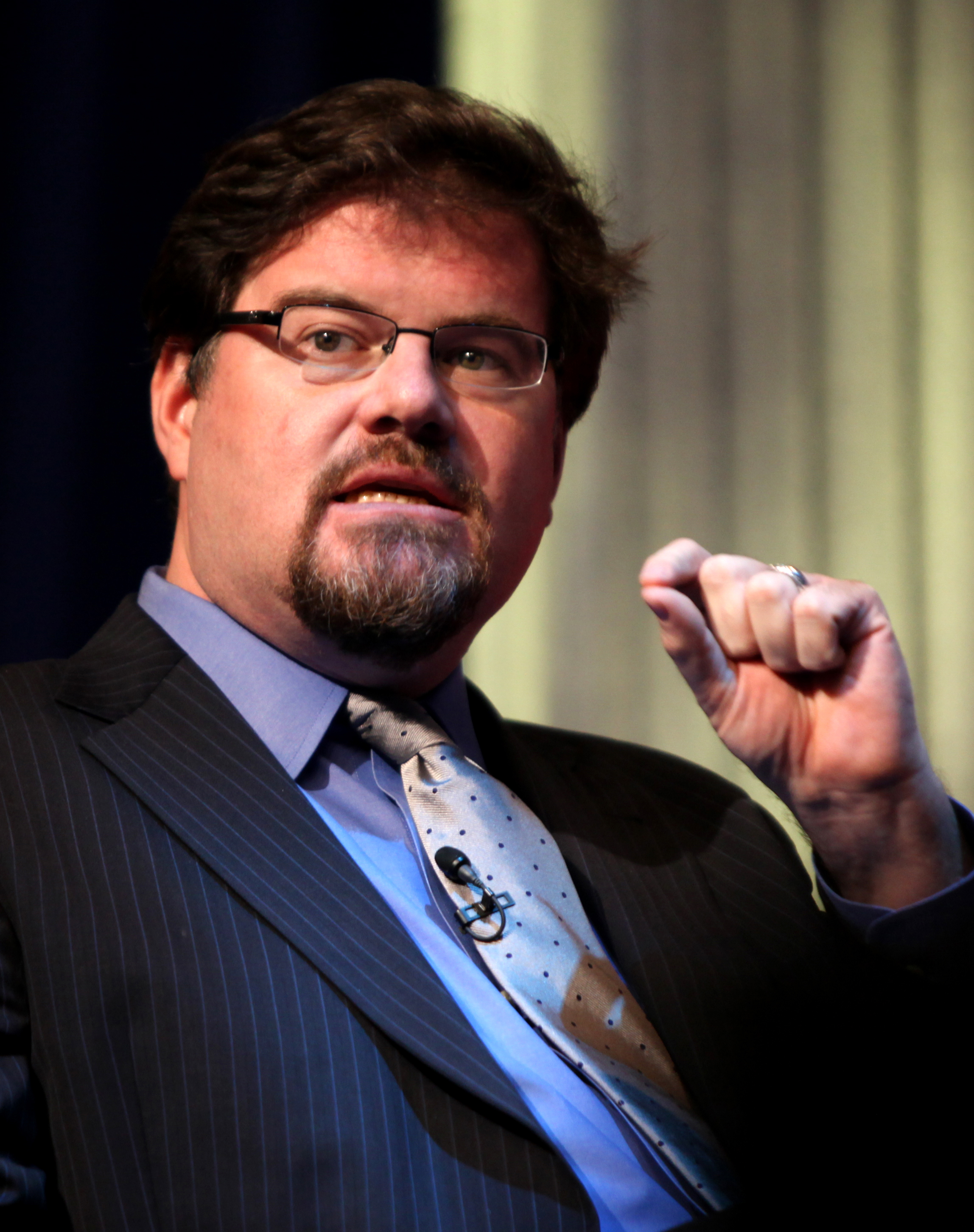 Jonah Goldberg speaking at CPAC in Washington D.C. on February 10, 2012.